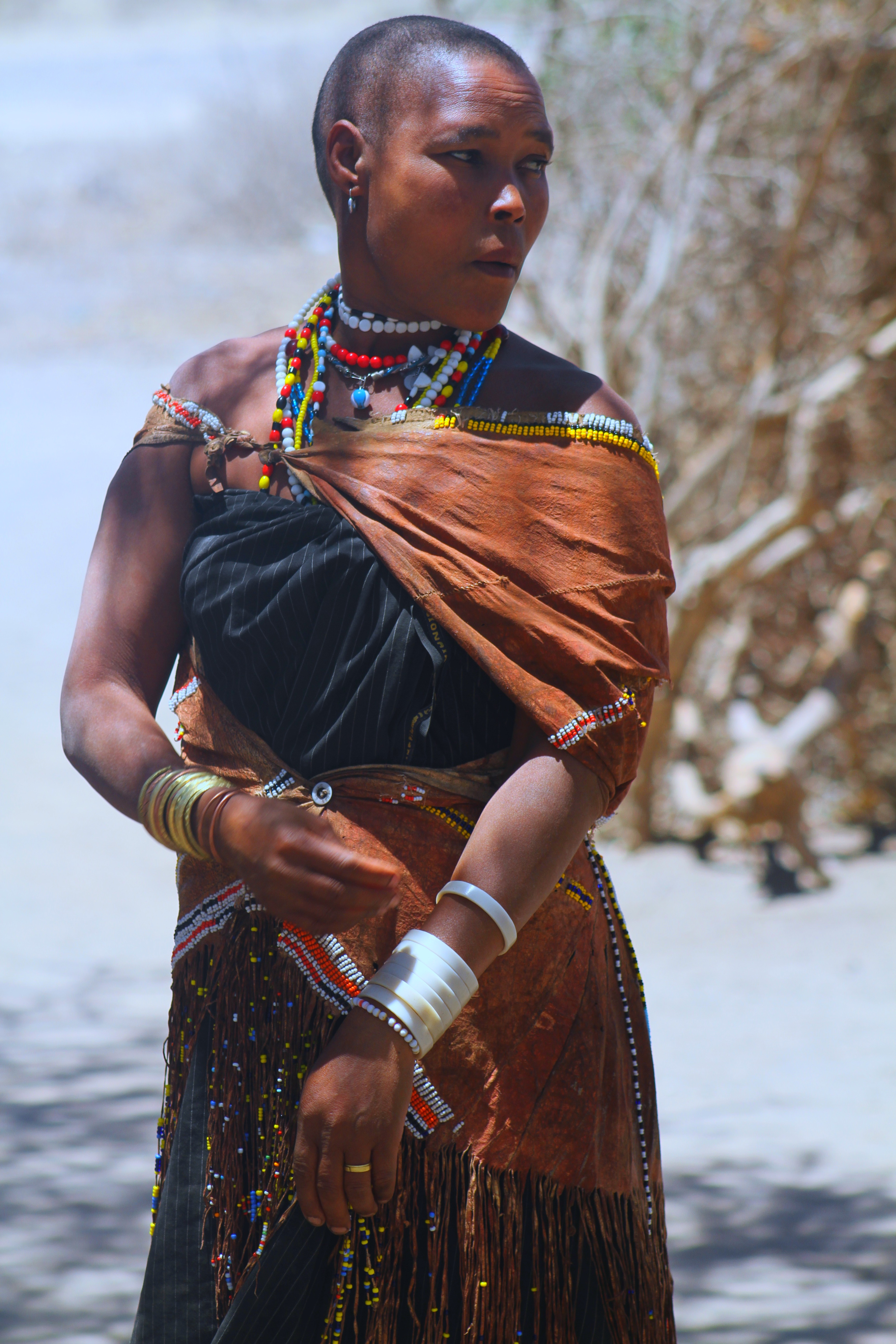 One of the remaining tribes in Northern zone of Tanzania that maintain African culture, and they leave through Iron works and barter trade, and they in good relationship with Hadzabe tribe. If you choose to visit them expect to receive few unique gifts like hand made bangs, neckless, earrings and more This is an image of Cultural Fashion or Adornment from Tanzania